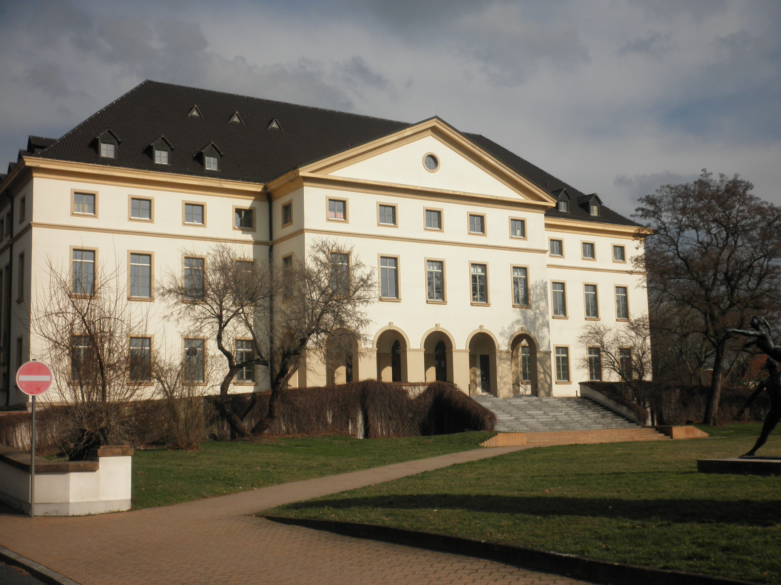 Leuna Kulturhaus (2017)